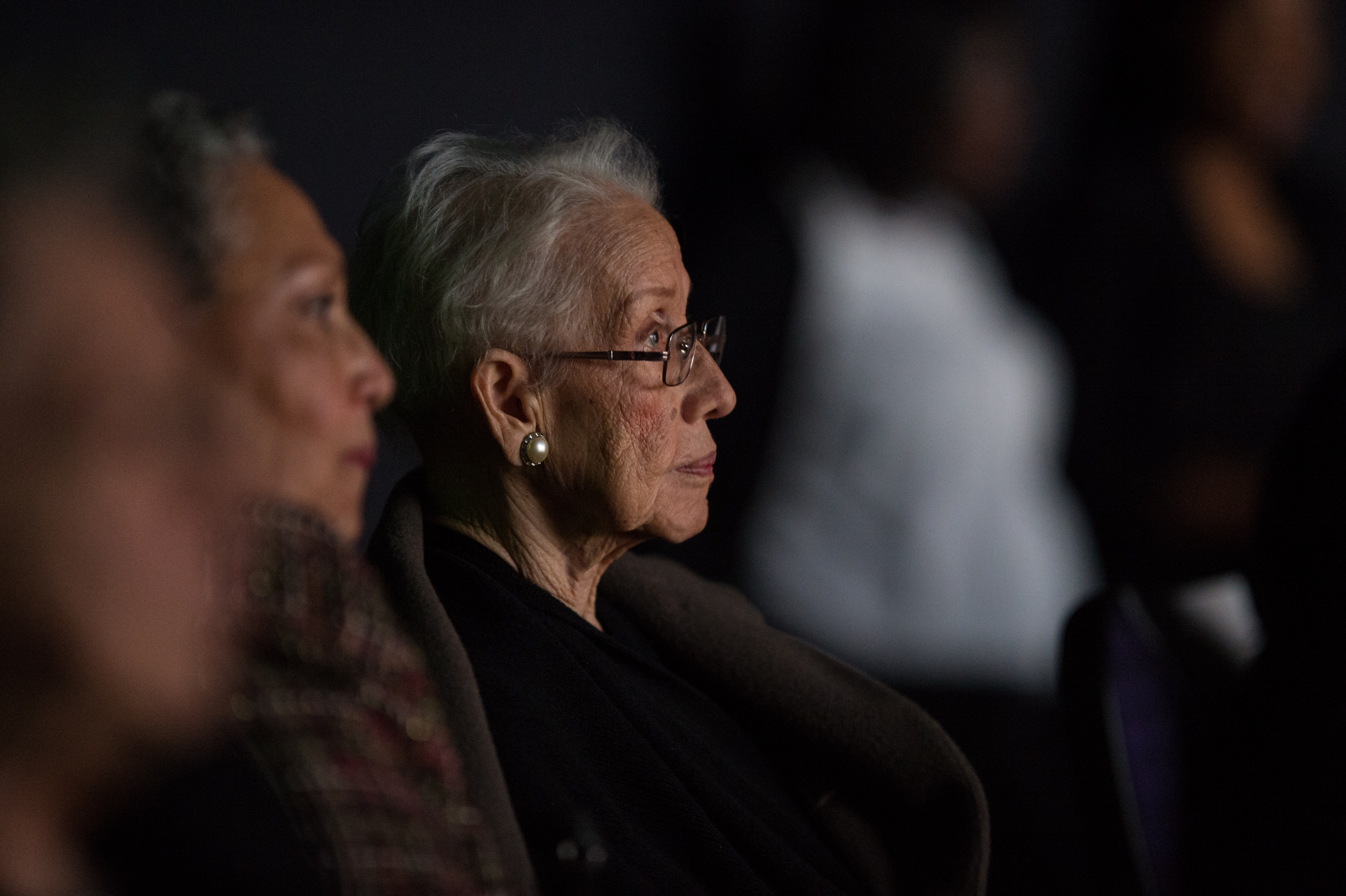 NASA "human computer" Katherine Johnson watches the premiere of "Hidden Figures" after a reception where she was honored along with other members of the segregated West Area Computers division of Langley Research Center, on Thursday, Dec. 1, 2016, at the Virginia Air and Space Center in Hampton, VA. "Hidden Figures" stars Taraji P. Henson as Katherine Johnson, the African American mathematician, physicist, and space scientist, who calculated flight trajectories for John Glenn's first orbital flight in 1962.